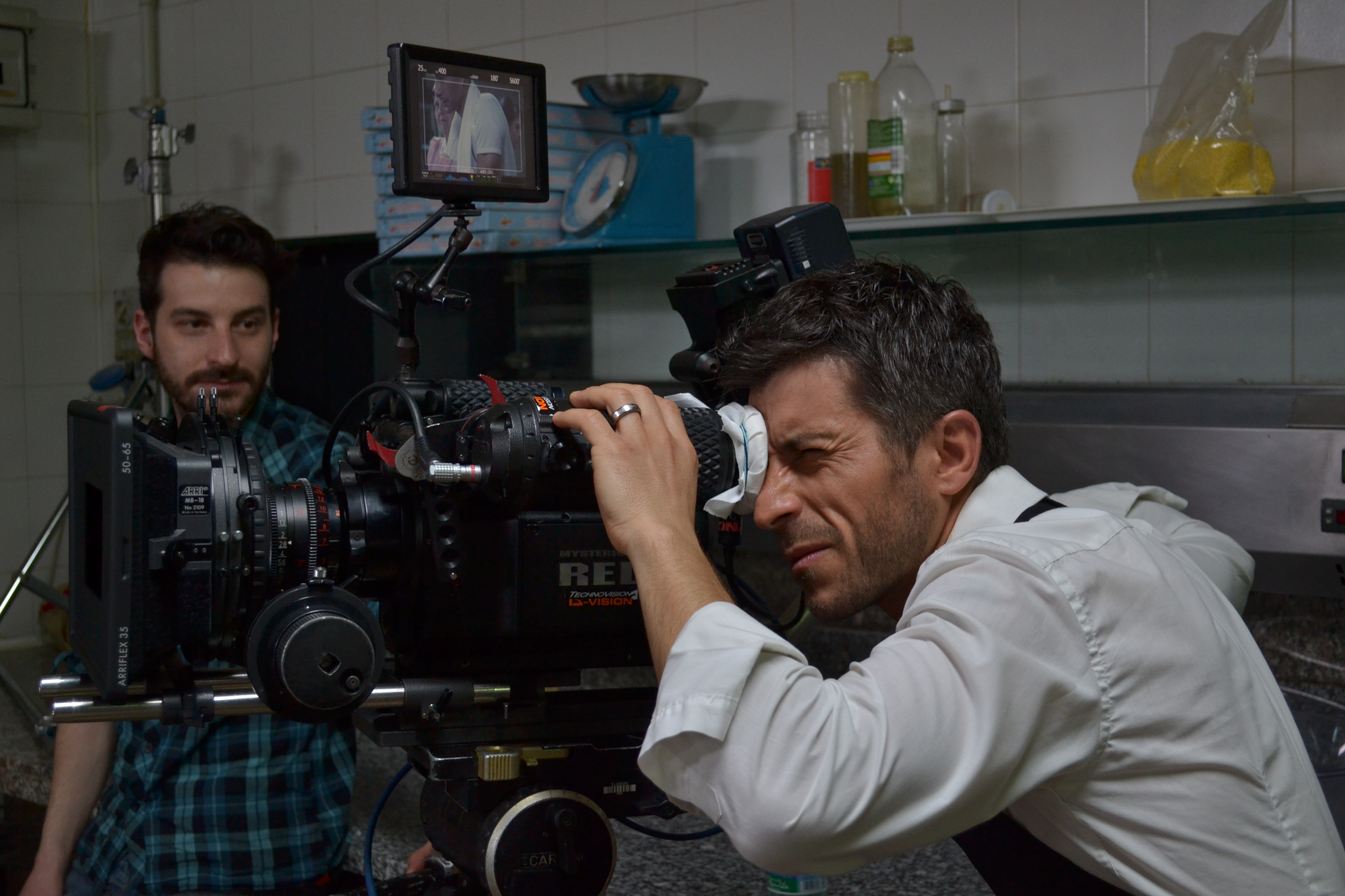 Renato Marotta dirige la troupe sul set di Quel pomeriggio di un giorno da attore